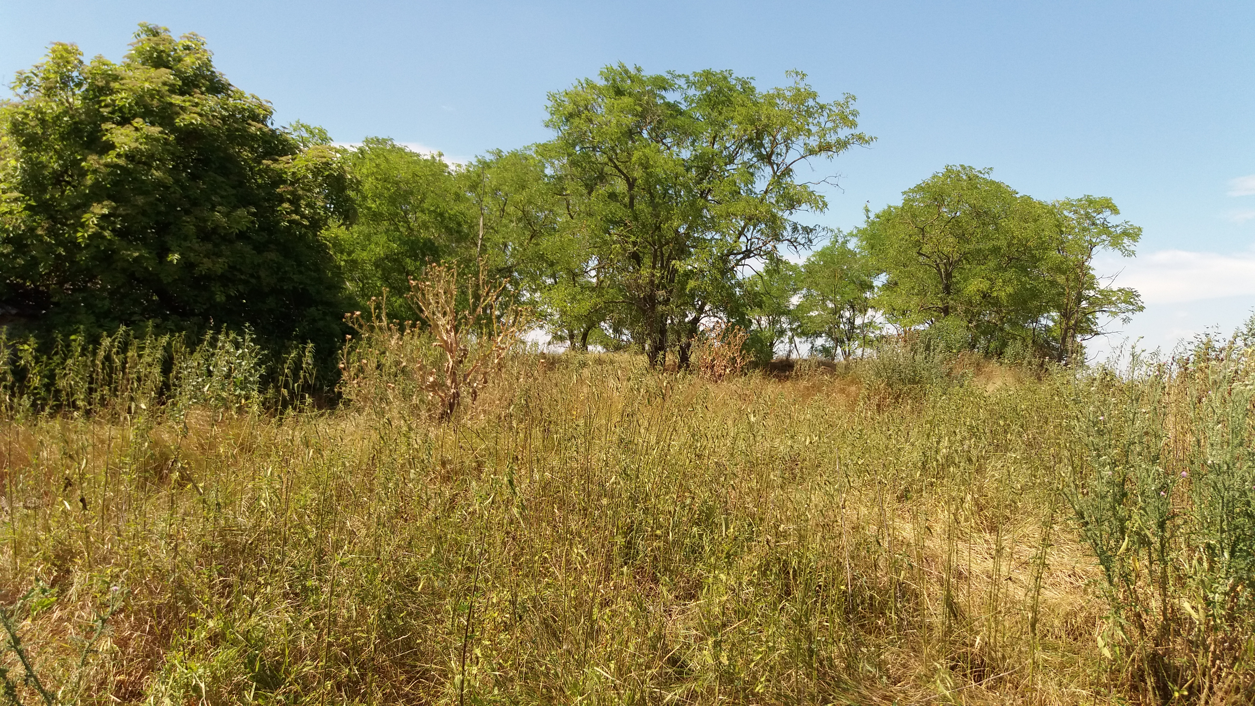 earth mound